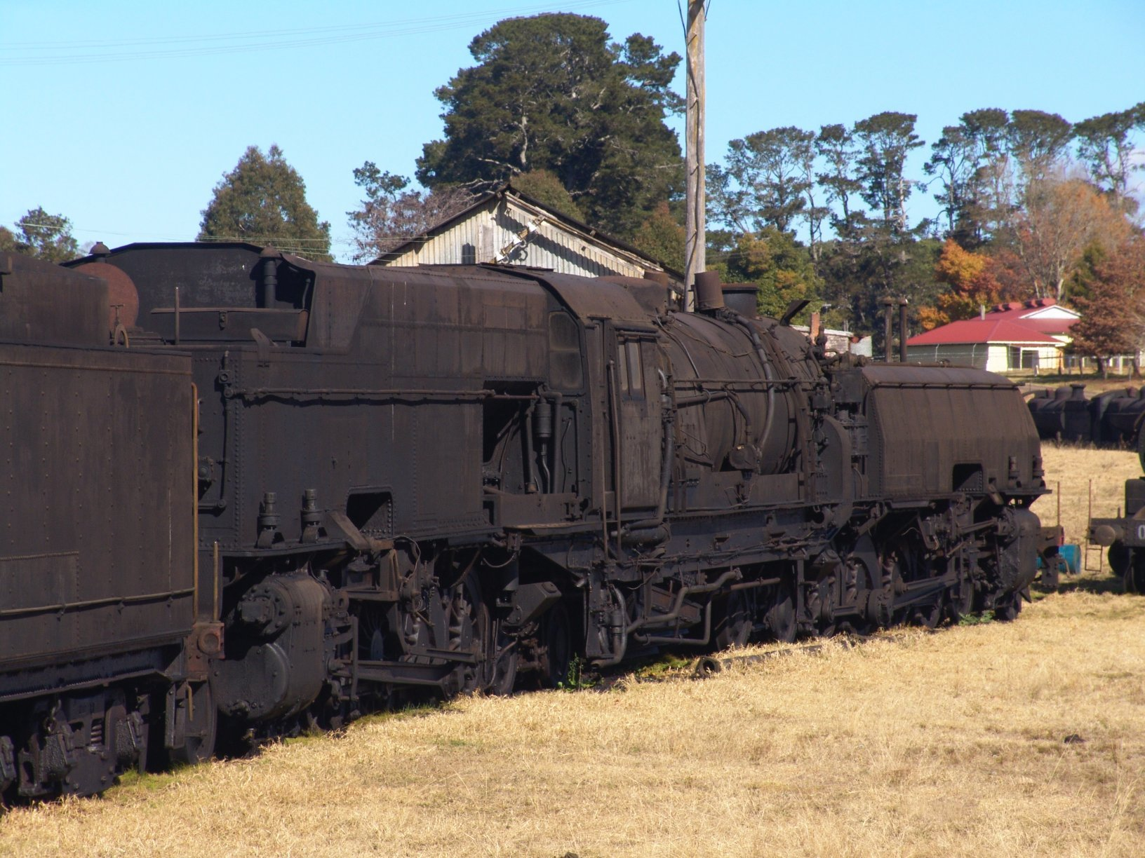 New South Wales Government Railways AD60 Beyer Garratt, in storage at the Dorrigo Rail Museum.